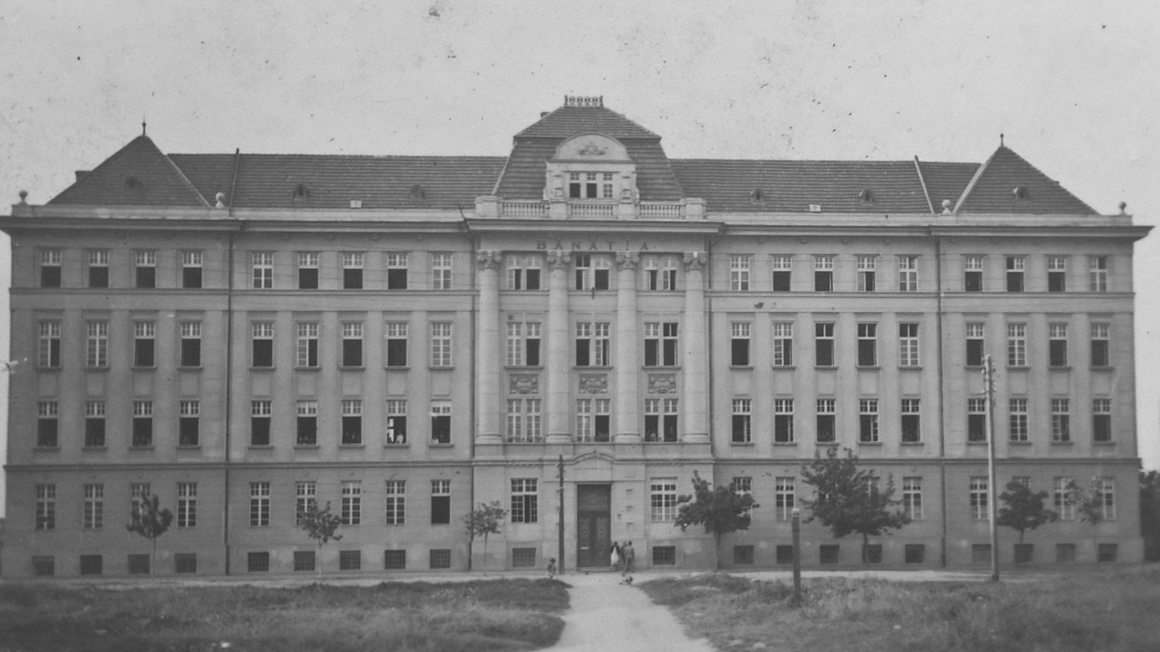 Banatia School Temeschwar 1939